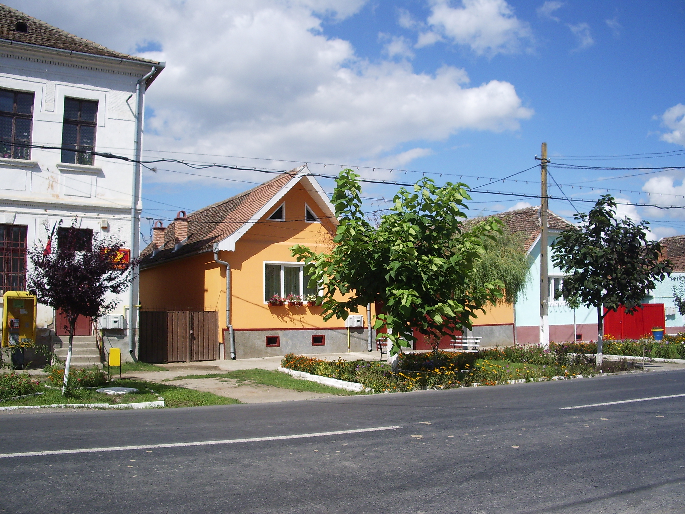 Houses in Daneş, Mureş County, Romania